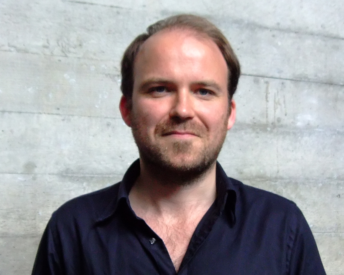 Rory Kinnear English Actor